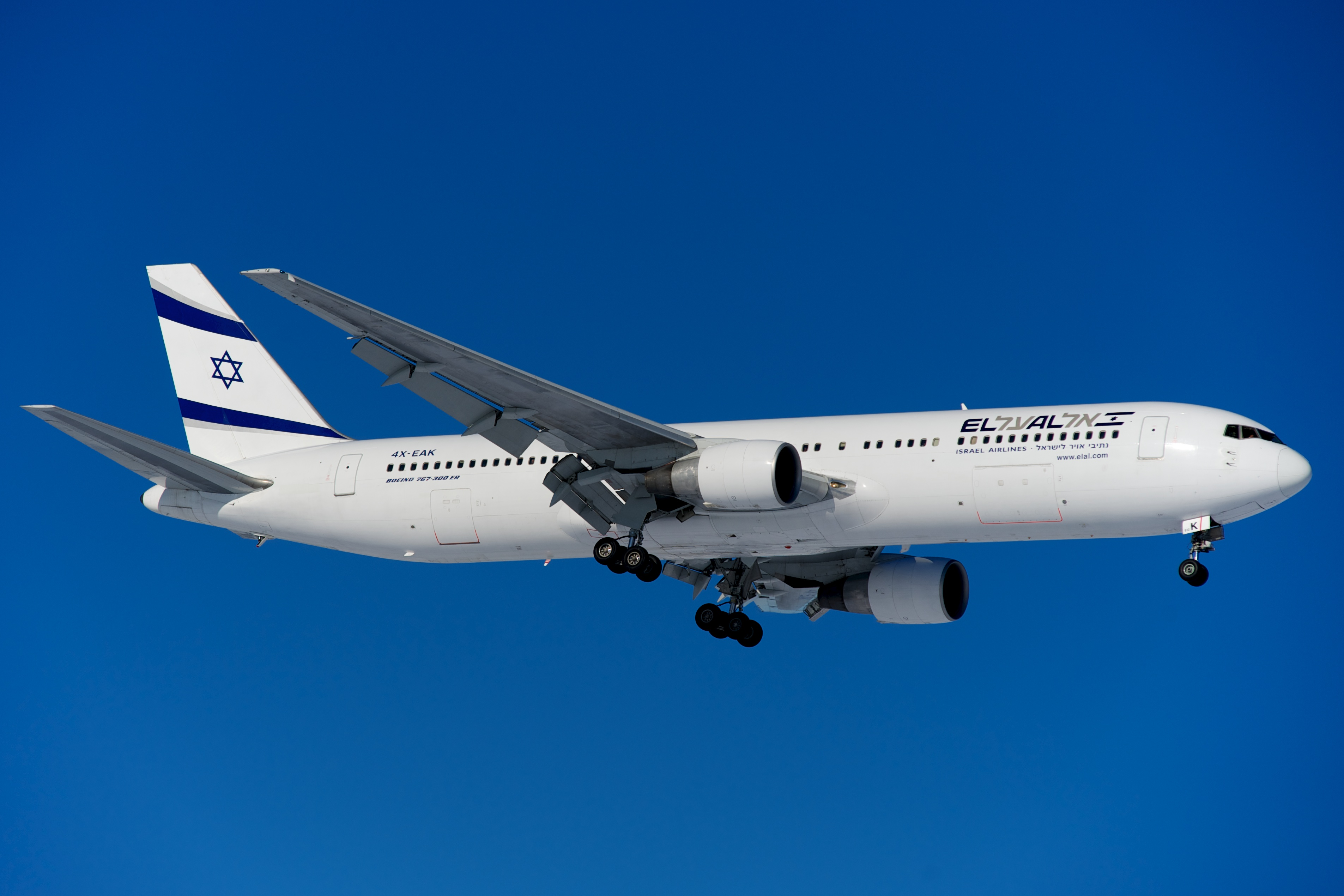 Running late, arriving into bright and sunny YYZ